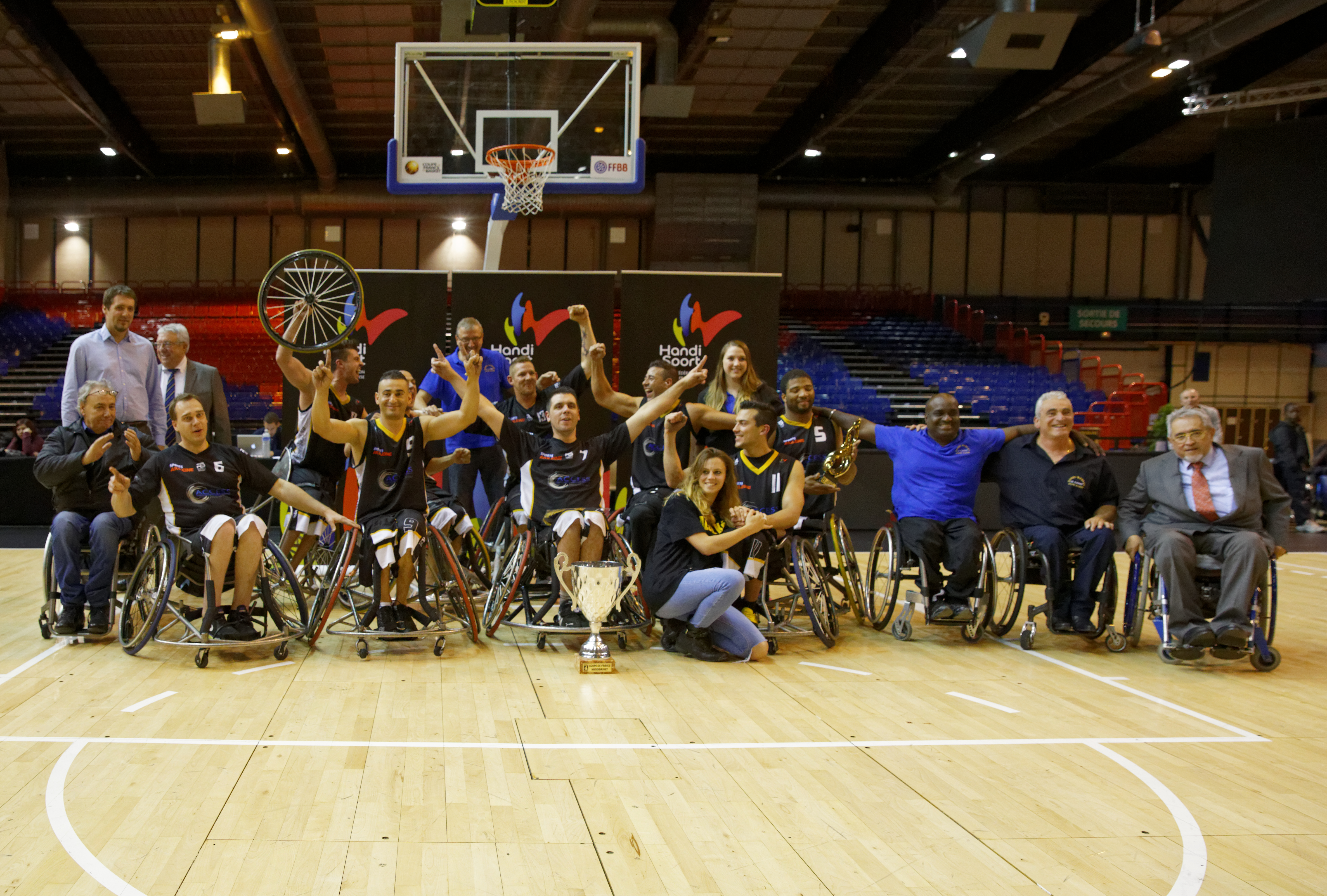 Final of the French Wheelchair Basketball Cup, CS Meaux vs Le Cannet, 1st May 2015.